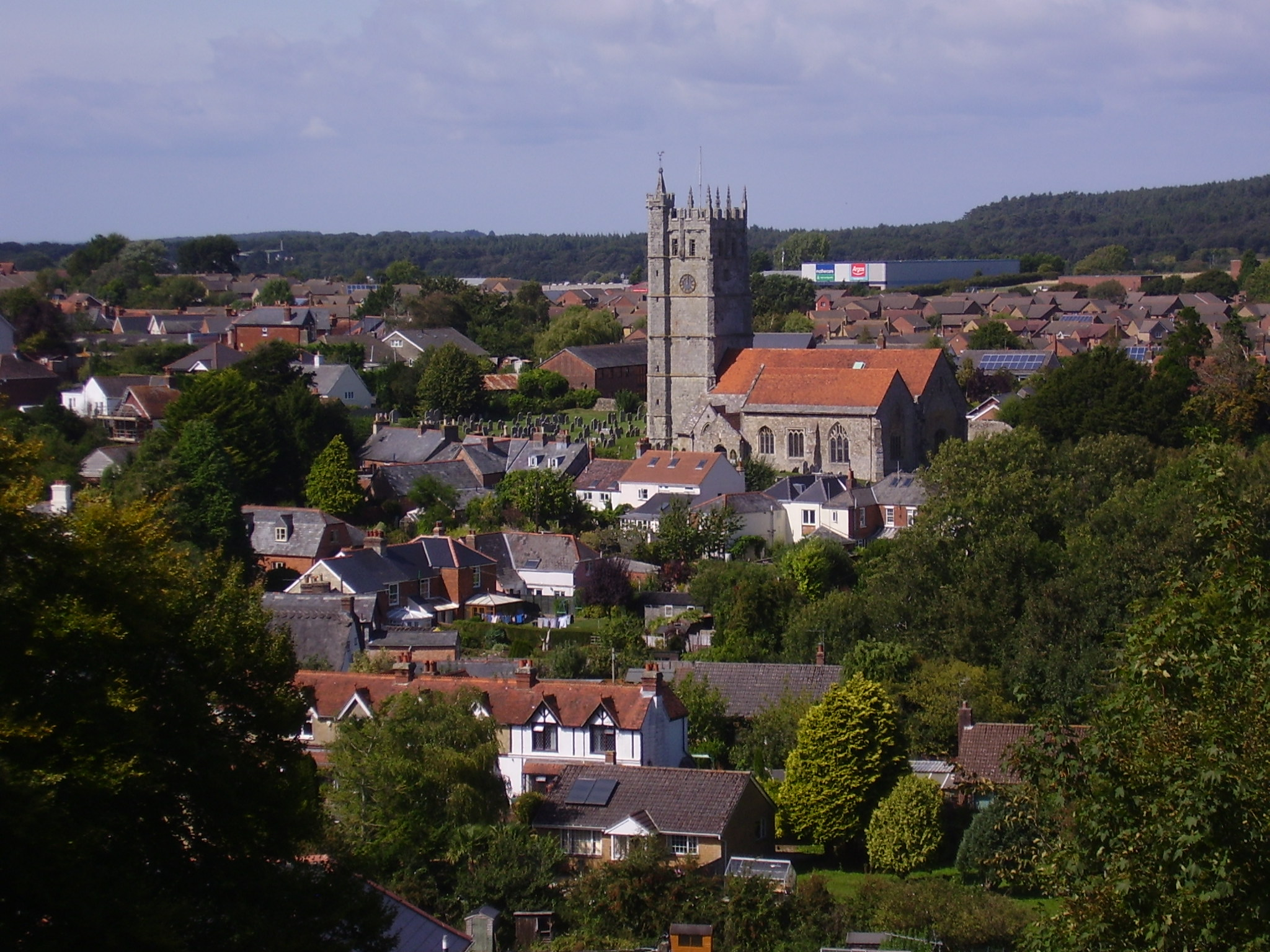 View of Carisbrooke church and village, Isle of Wight, UK, taken from the castle ramparts